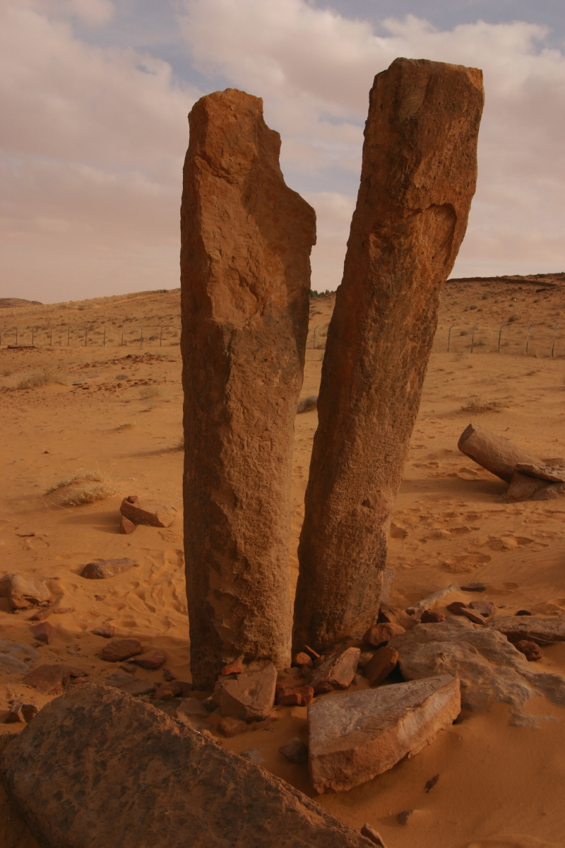 Al Rajajil 12 m south-west of Sakaka is a site that is the mysterious legacy of an unknown ancient people. It comprises about 50 groups of standing stone pillars, most of which have fallen. This archaeological site has been dated to the middle of the fourth millenium C.